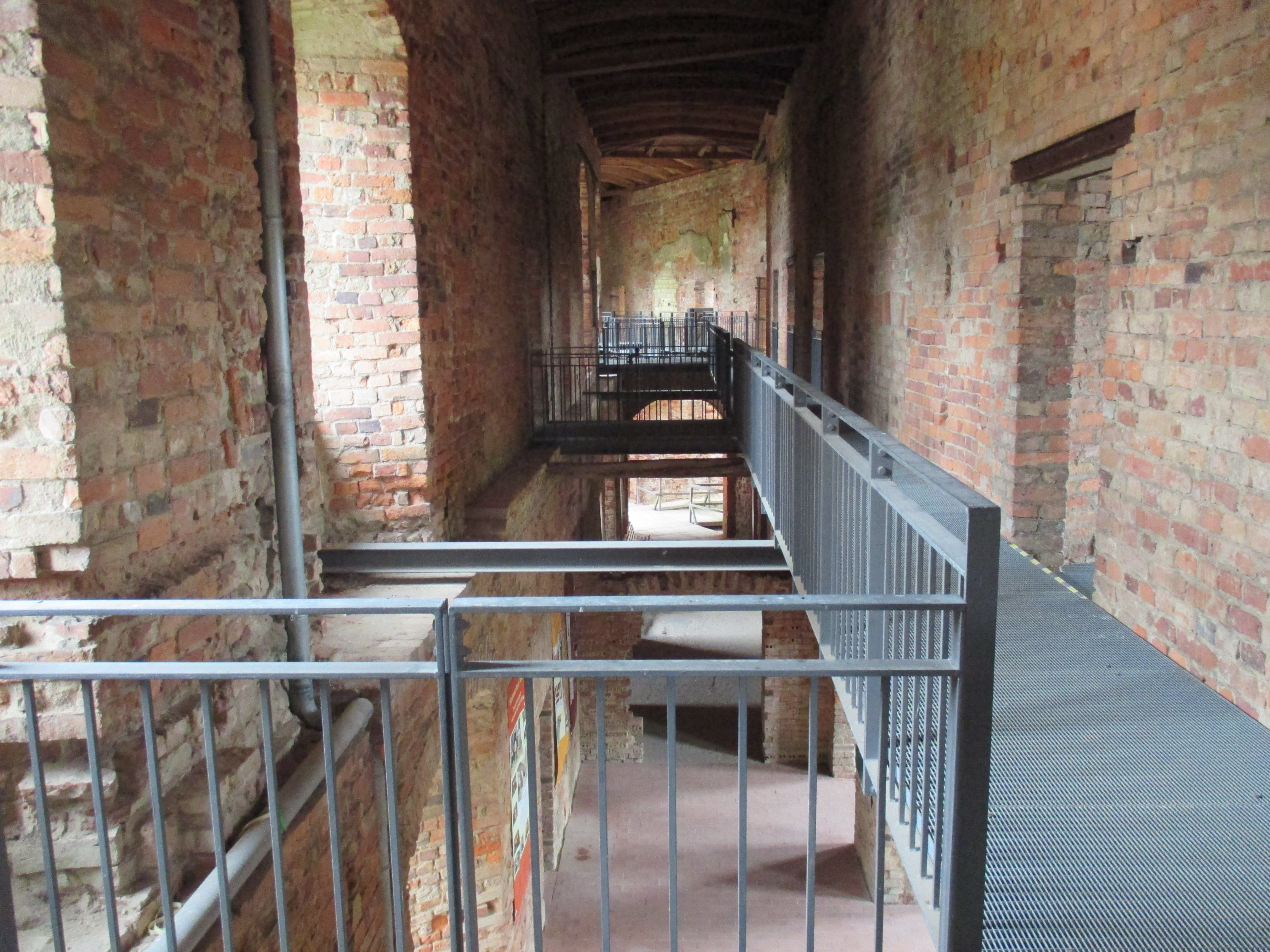 Schlossruine Dahme